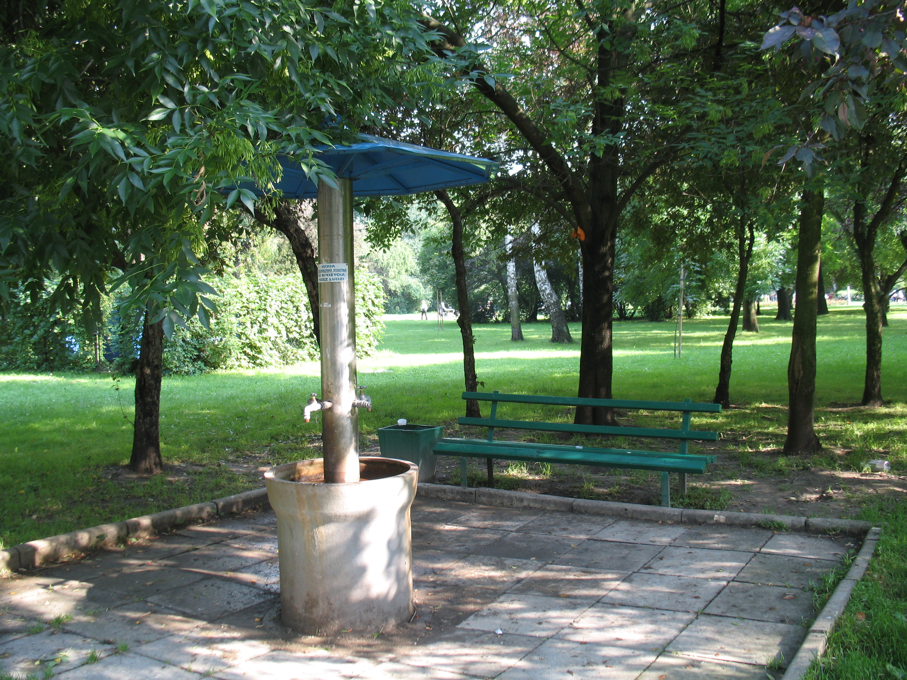 Park Ratuszowy (Town Hall Park), Kraków-Nowa Huta, Poland